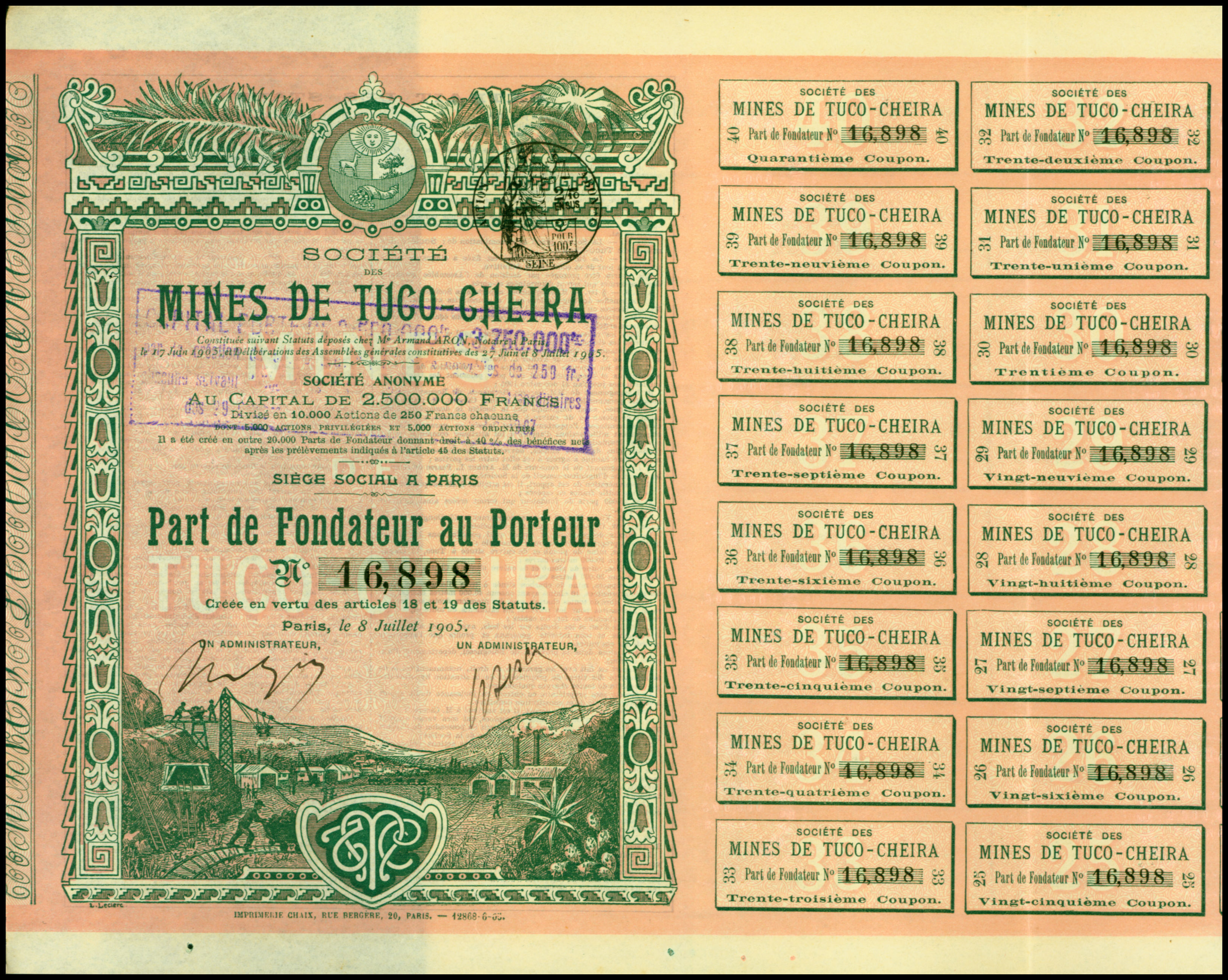 Part de Fondateur of the Société Mines de Tuco-Cheira, issued 8. July 1905